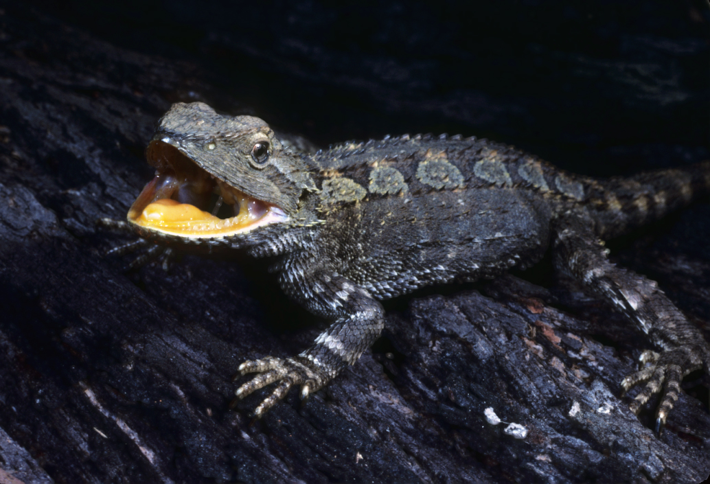 Jacky Lizard (Amphibolurus muricatus)